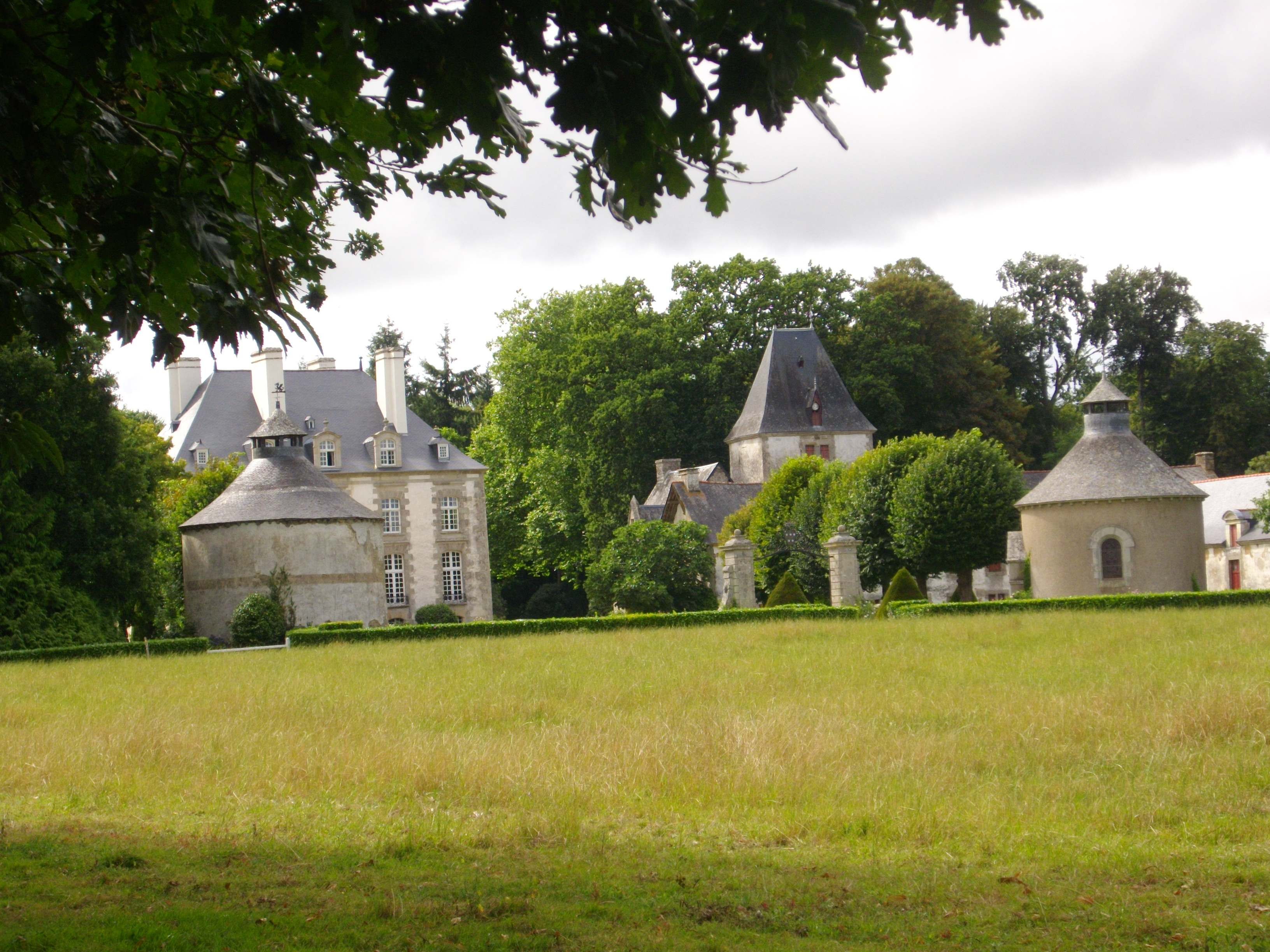 Haute-Touche castle in Monterrein (Morbihan, France) .